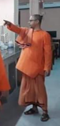 Swami Dharmapriyananda, 10th and current headmaster of Baranagar RKM School